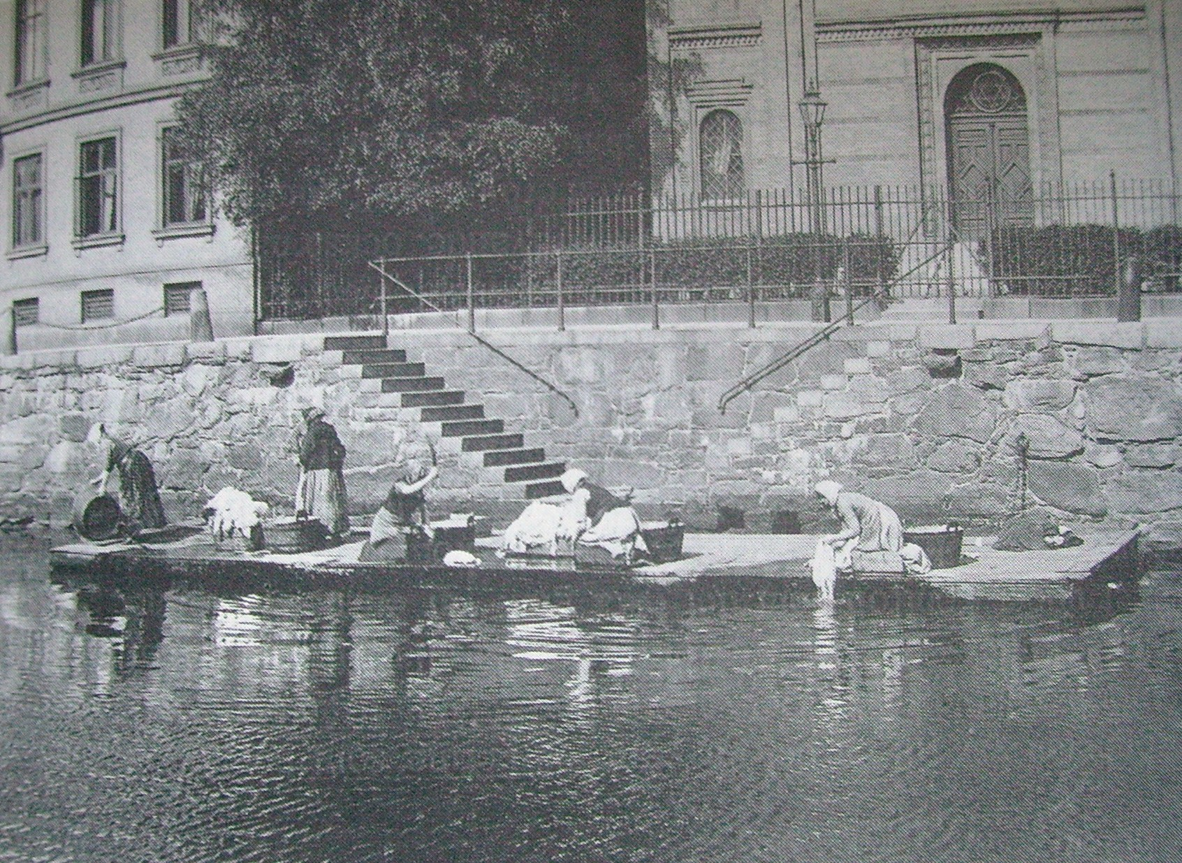 Picture of women who is doing thier laundry in Göteborg